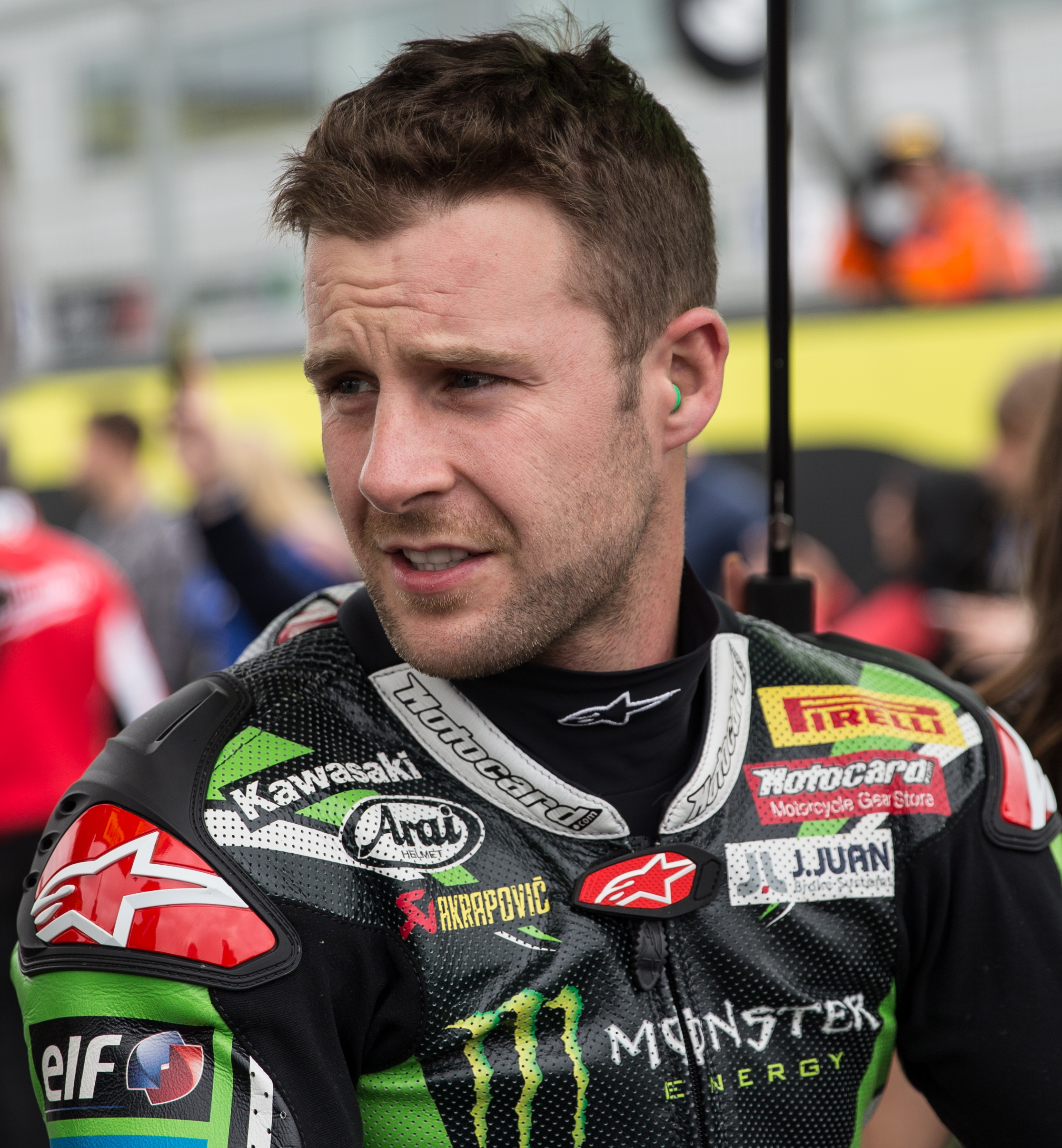 Jonathan Rea on the World Superbike grid, Donington 2016.; A man sporting a stubble is looking to the right of the camera and is wearing black and green motorcycling overalls